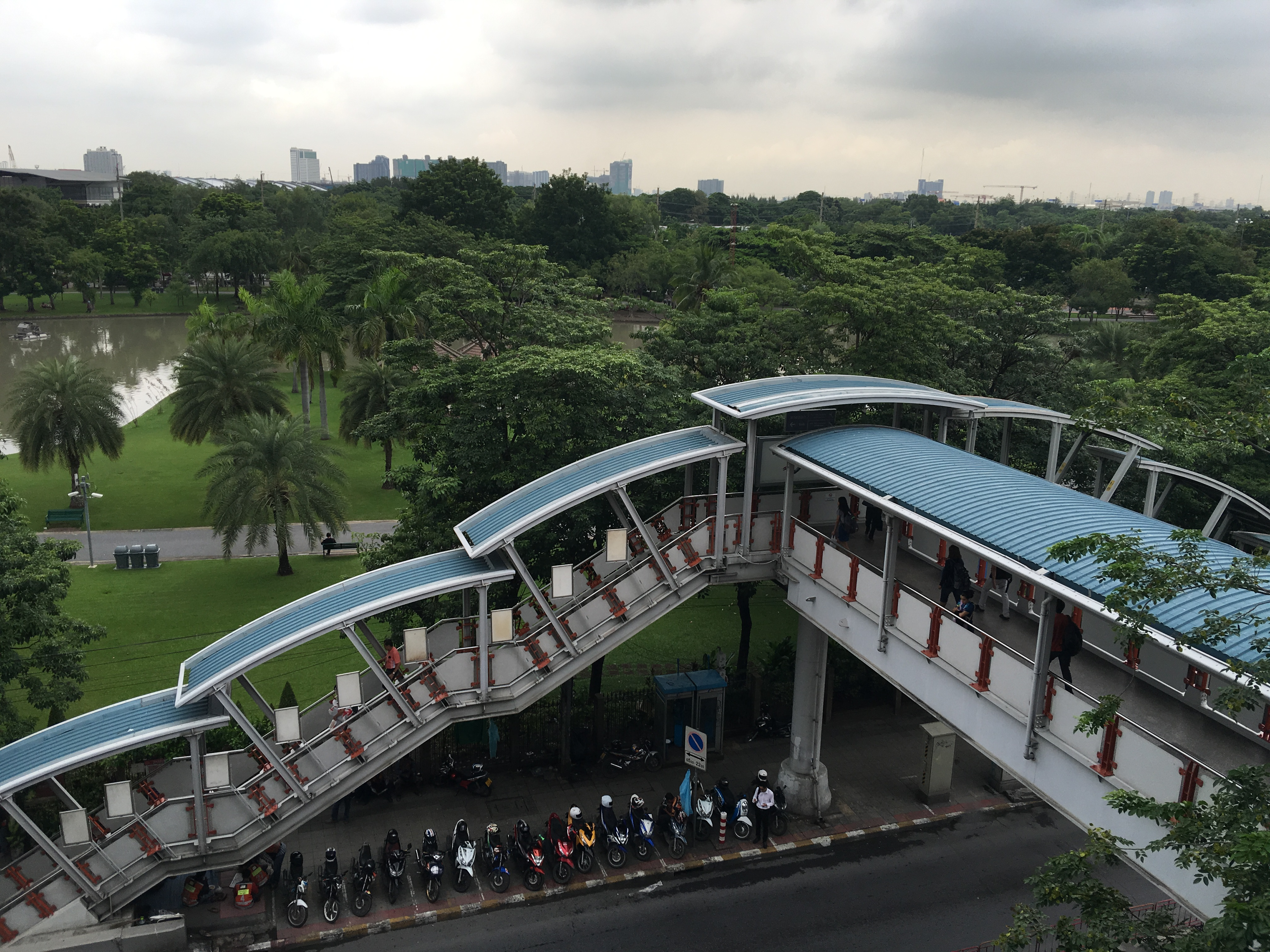 The exit to Chatuchak Park at Mo Chit Station